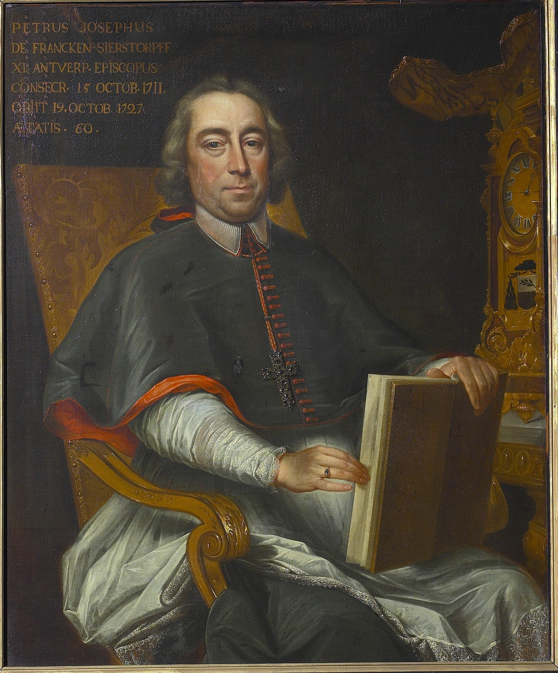 Portrait of Bishop Franken-Sierstorpff XI